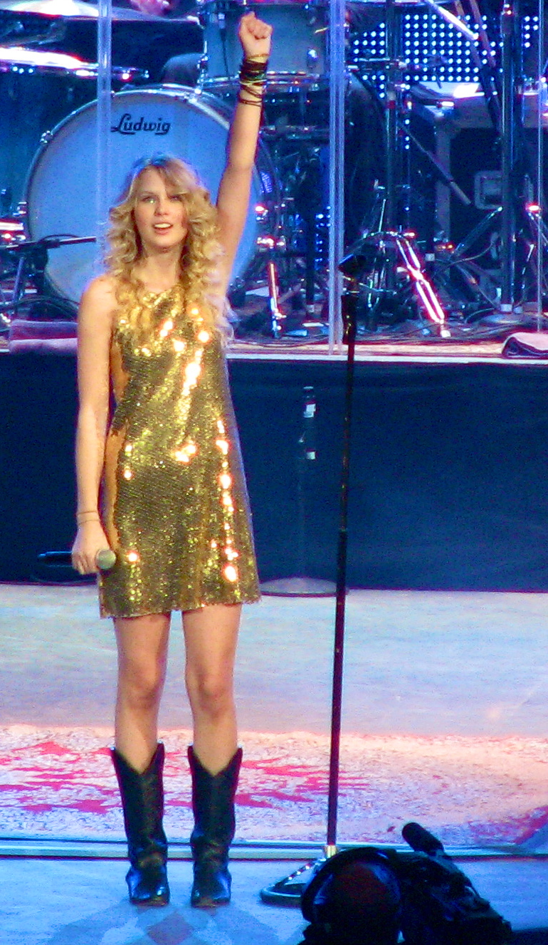 Taylor Swift during her concert at the Houston Rodeo.